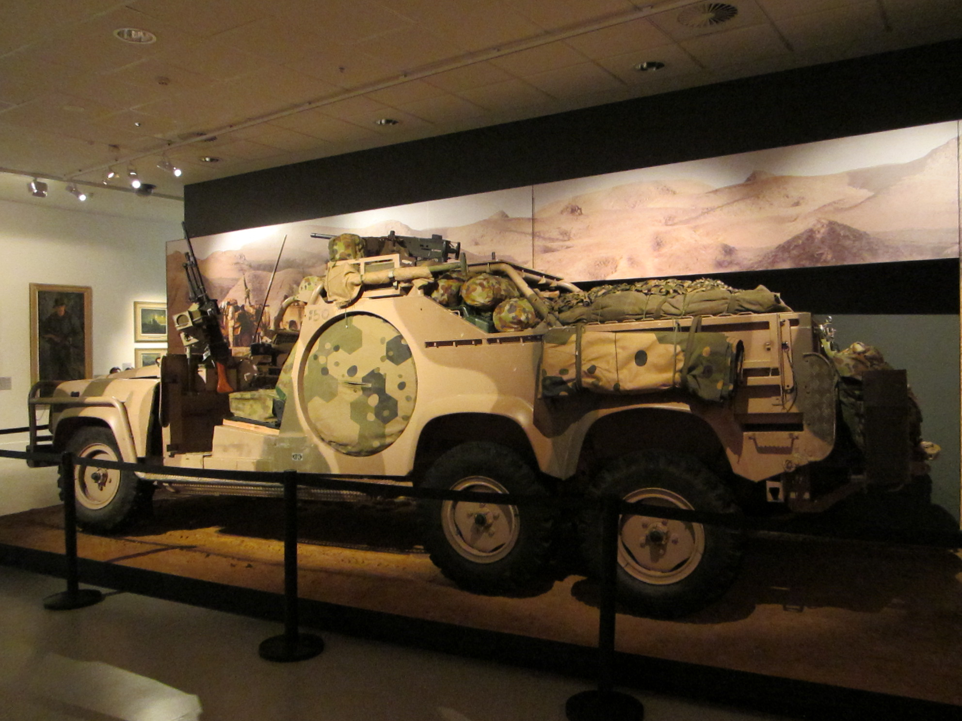 An Australian Special Air Service Regiment Long Range Patrol Vehicle (LRPV) on display at the Australian War Memorial in August 2012. This LRPV was damaged during fighting in Afghanistan.